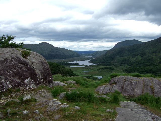 Ladies View Killarney Lakes Popular viewpoint on the main road through the Irish Lake District.